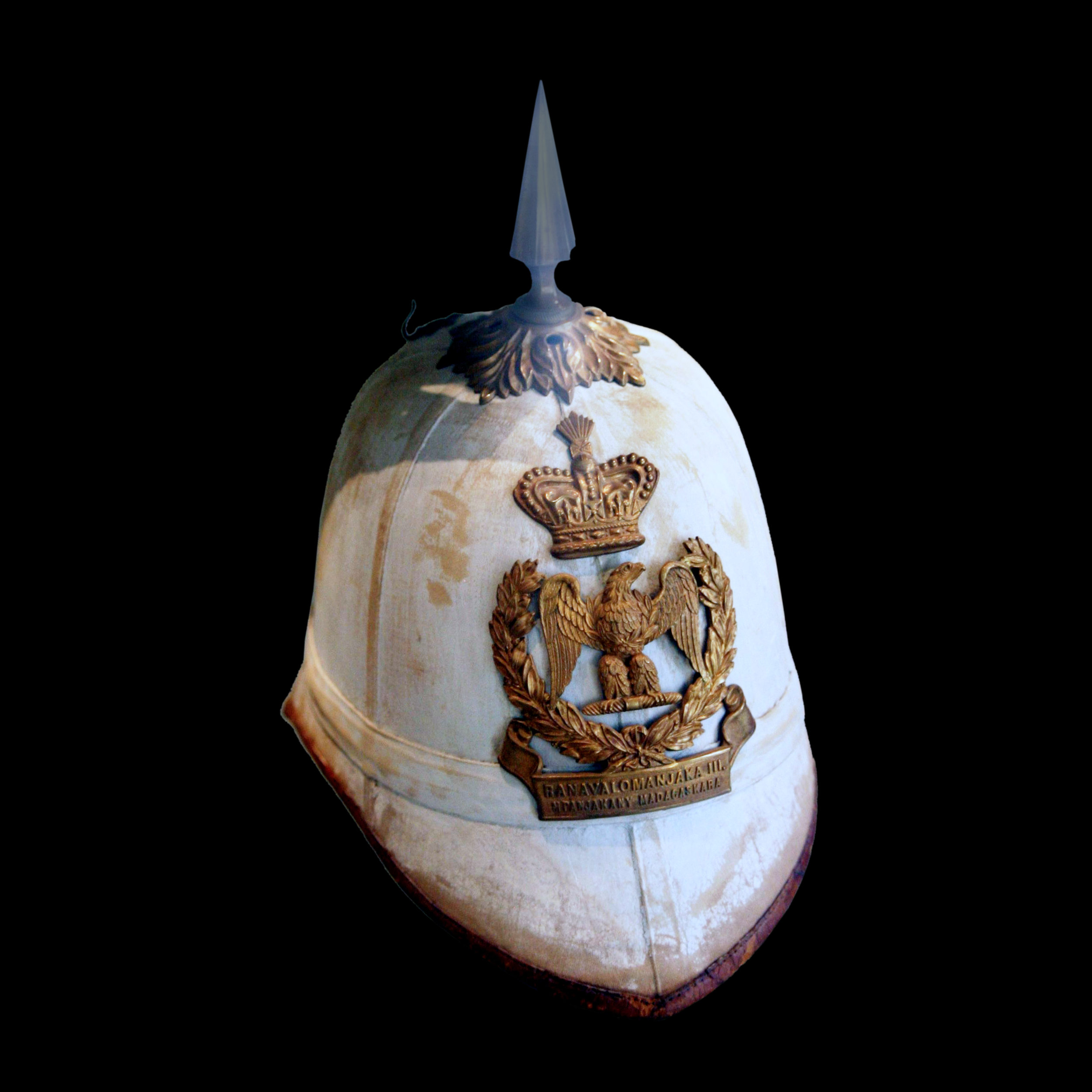 This image was taken at the Musée de l'Armée, Paris. This spiked helmet in pickelhaube style is marked with the name of Ranavalona III (1869-1917), the last queen of Madagascar.